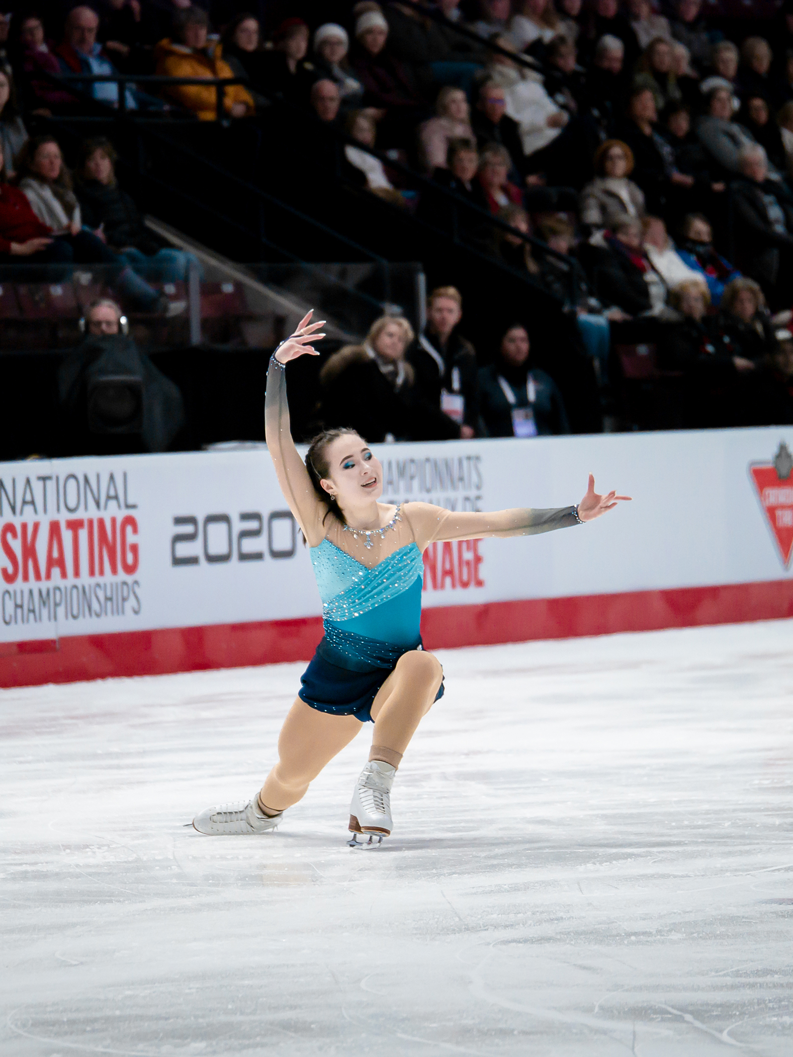 2020 Canadian National Figure Skating Championships- Emily Bausback- Short Program- 4th 58.09 points.